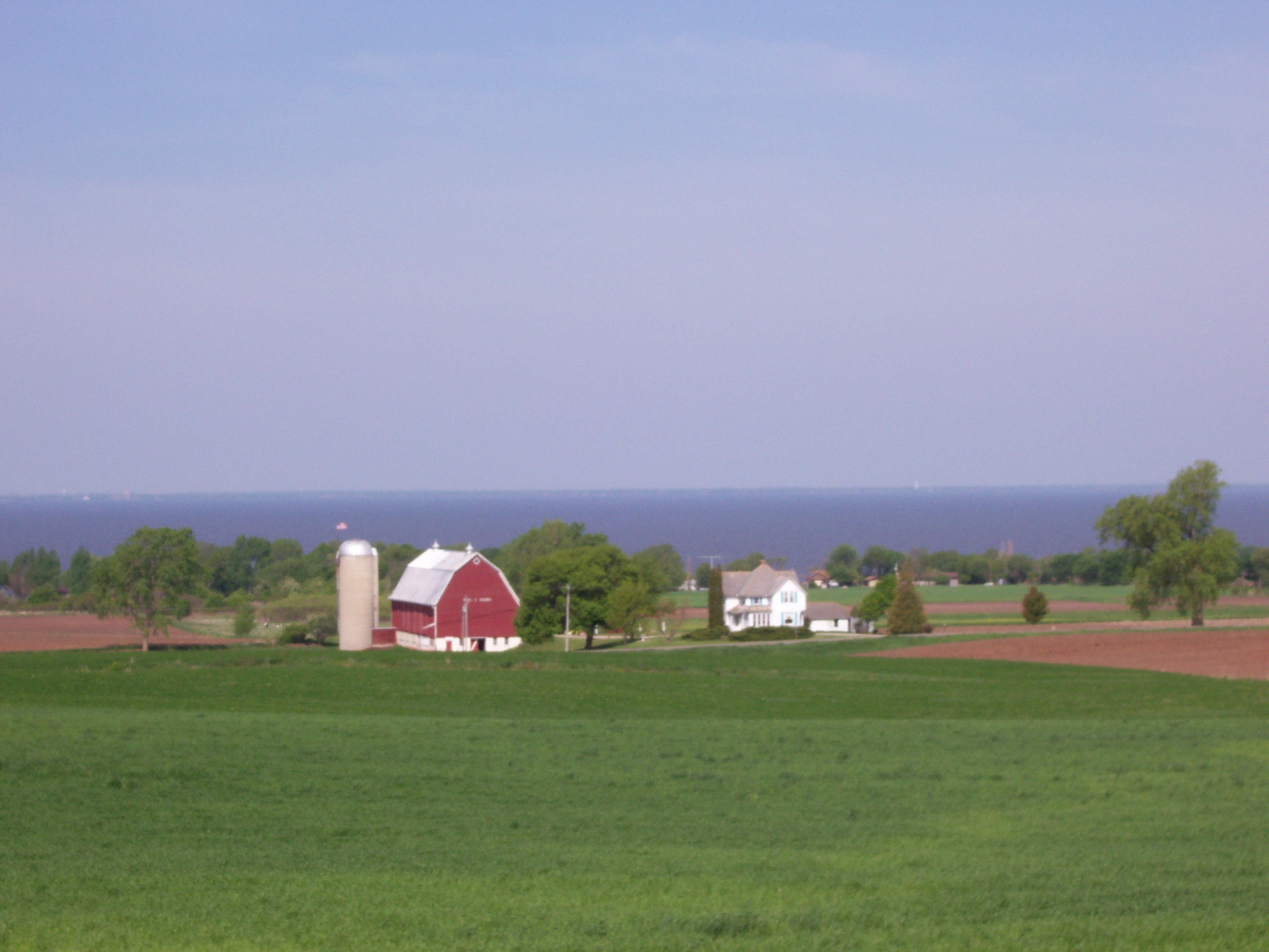 Looking west at a farm and farmland in Calumet County, Wisconsin, USA overlooking Lake Winnebago (background).